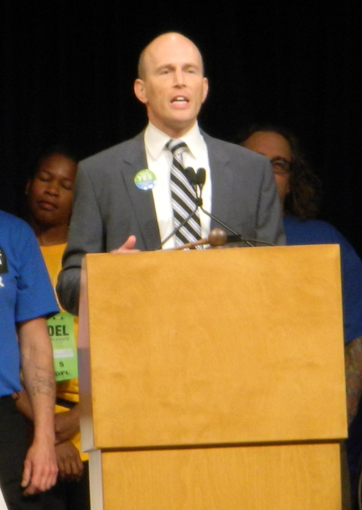 Gary Schiff speaking at the 2013 DFL endorsement convention during the 2013 Minneapolis mayoral election.